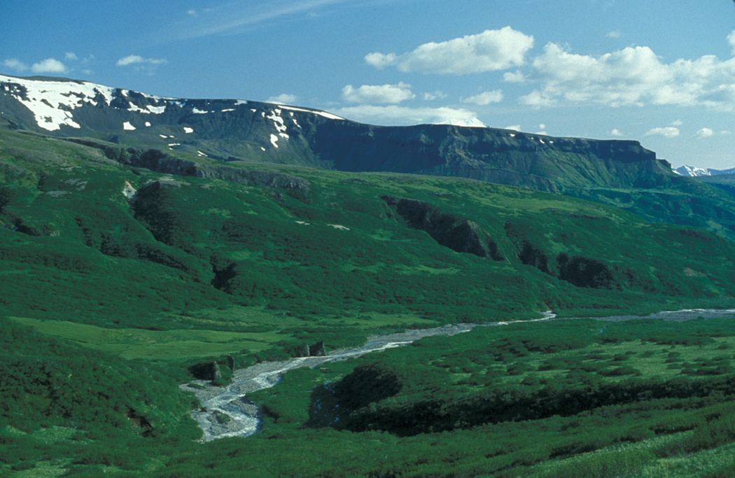 Lefthand Valley Wilderness Area in Summer, Izembek National Wildlife Refuge.